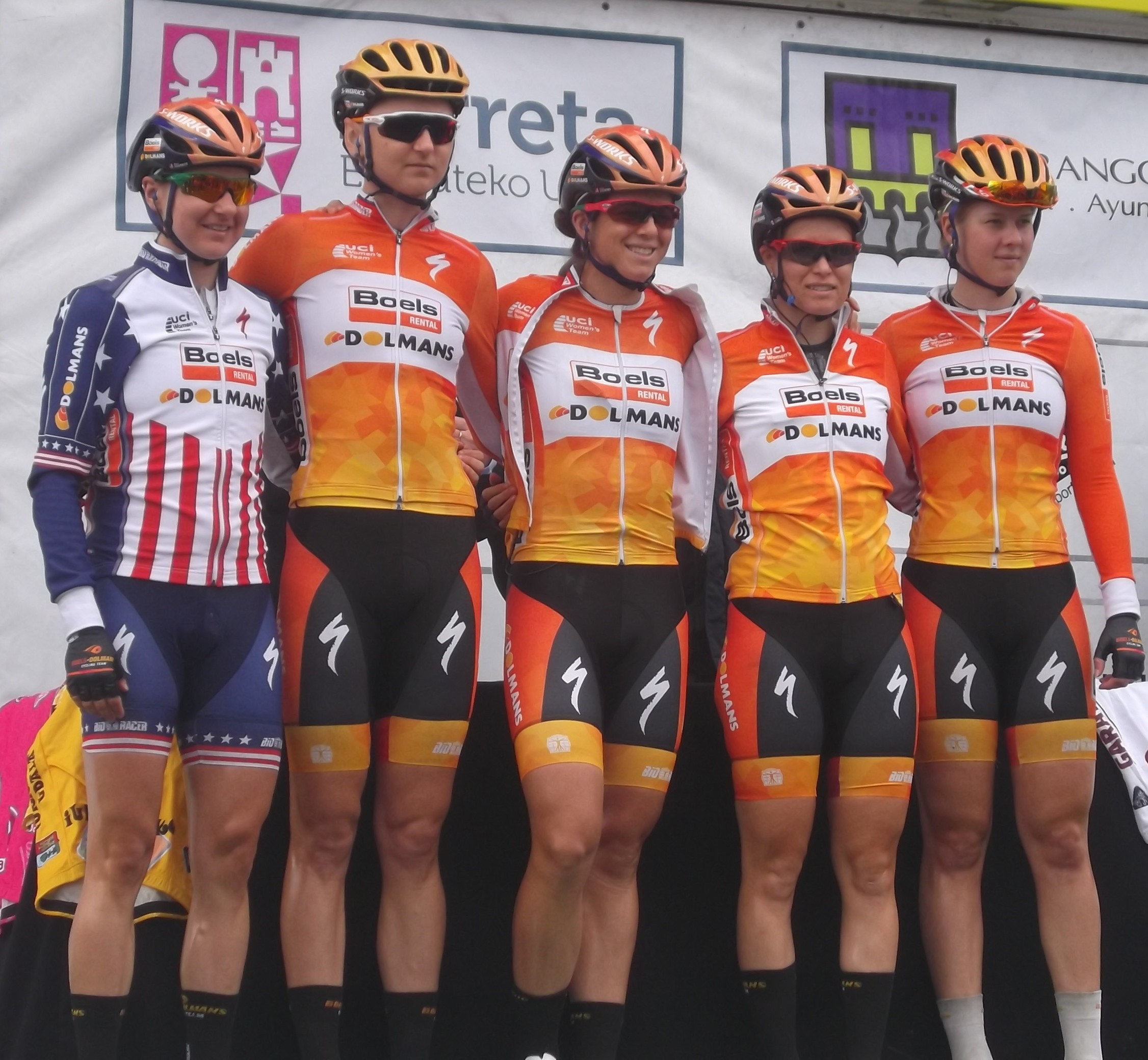 Boels Dolmans Emakumeen Bira 2016